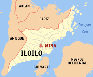 Map of Iloilo showing the location of Mina